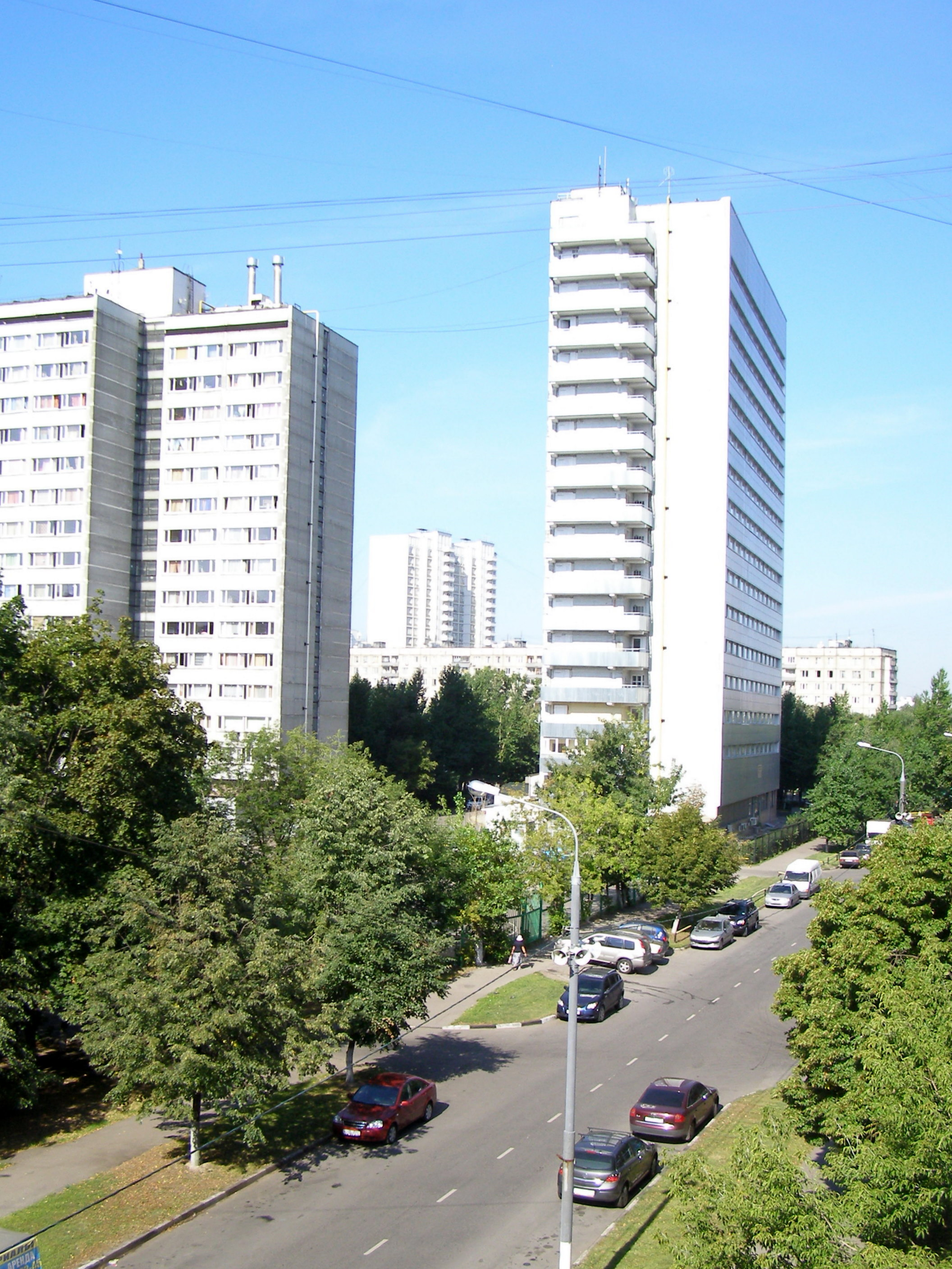 Generala Antonova Street, Moscow North-westerly direction